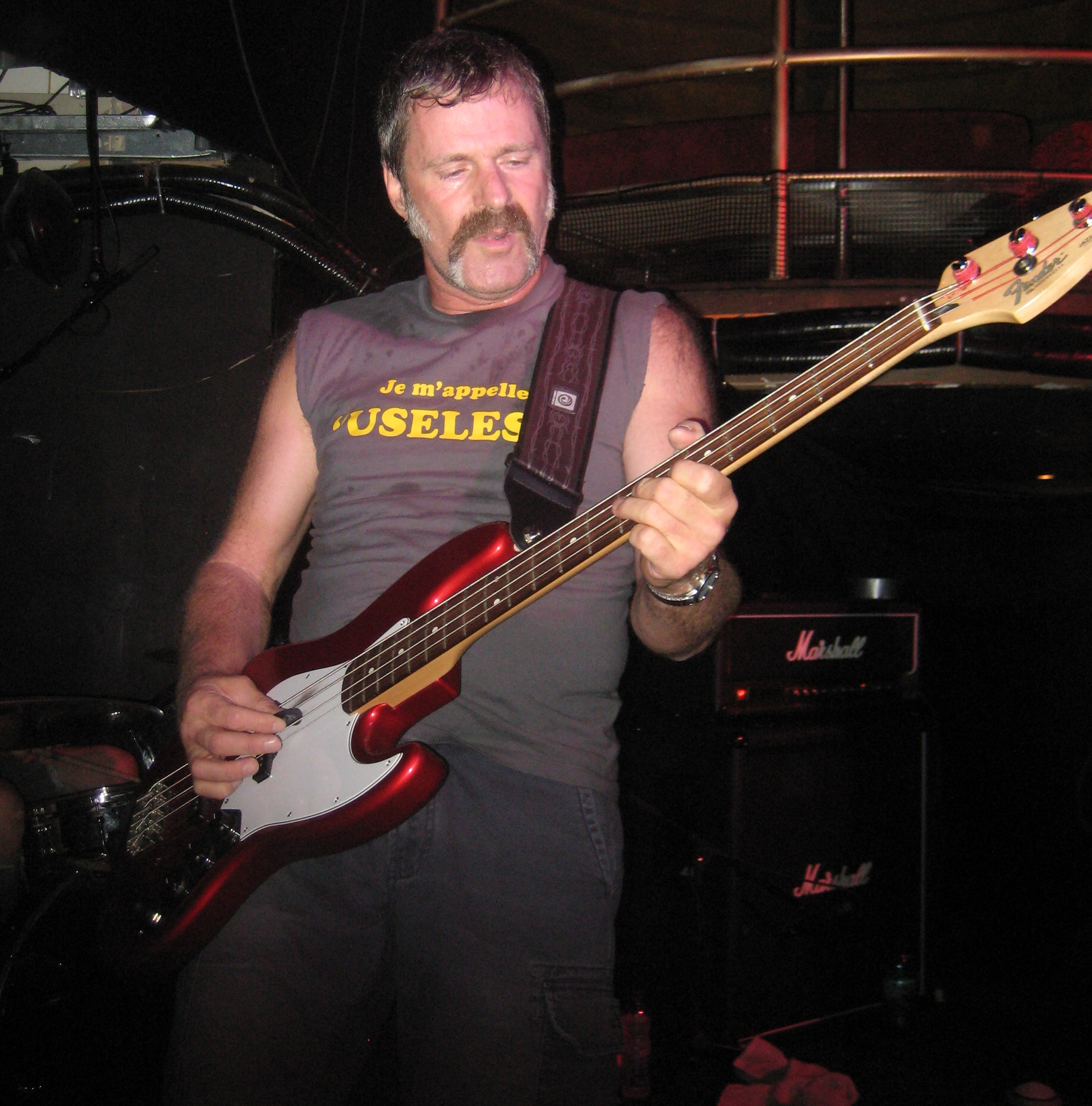 Gerry Hannah playing in Montreal with the Subhumans, September 2010. (Picture by Ian Bussieres, Le Soleil)